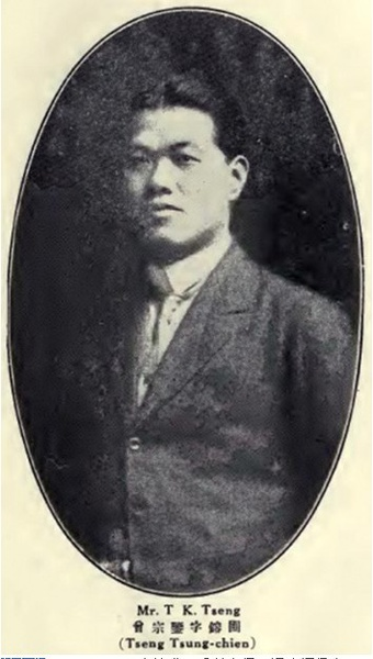 Zeng Zongjian (1882－？)